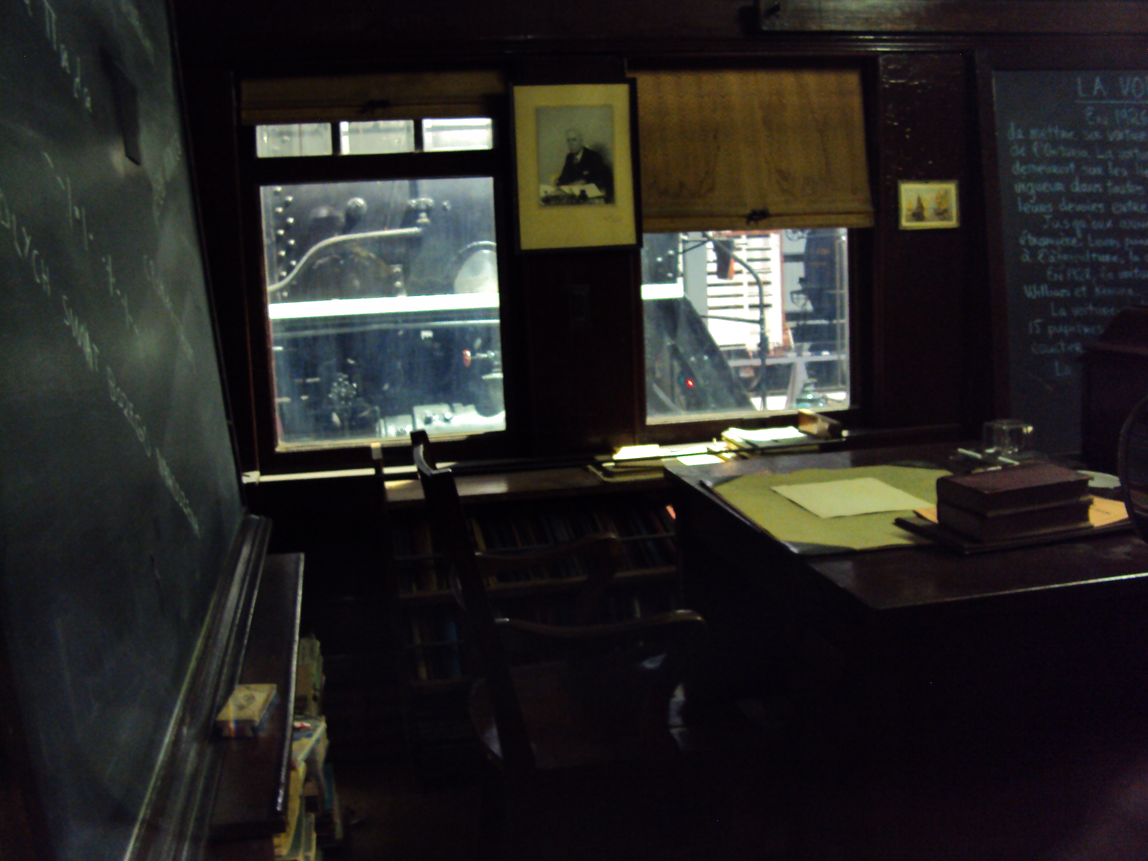 School on wheel classroom 2